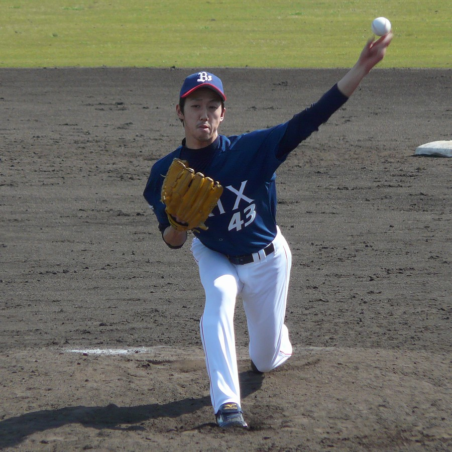 OB-Toru-Anan20100421